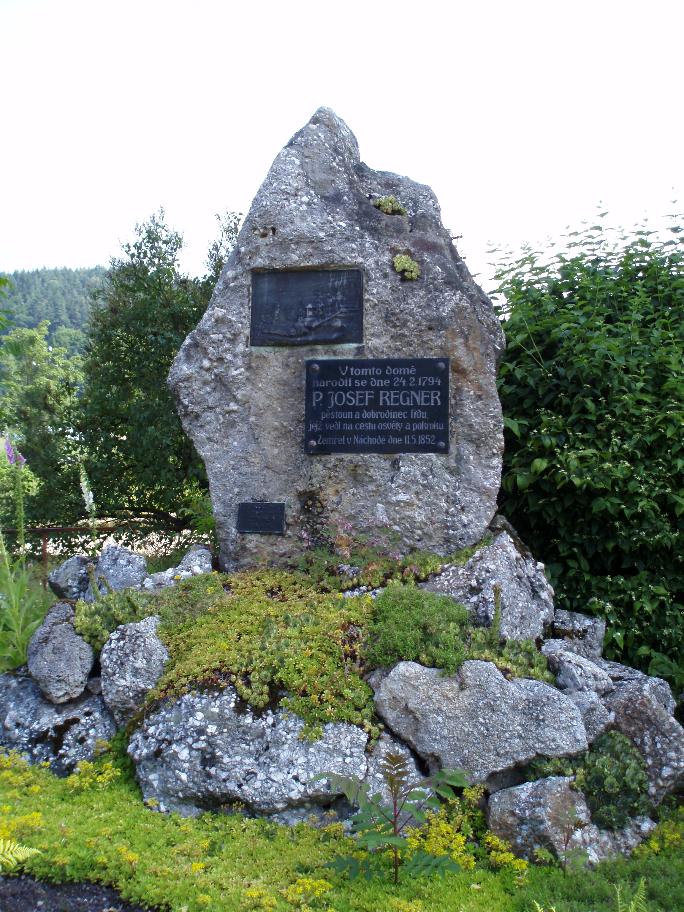 Memorial to a priest and a teacher Josef Regner in Havlovice (District of Trutnov, Czech Republic)